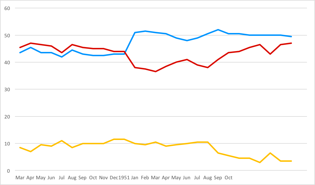 Graphical summary of the results of the 1951 UK general election